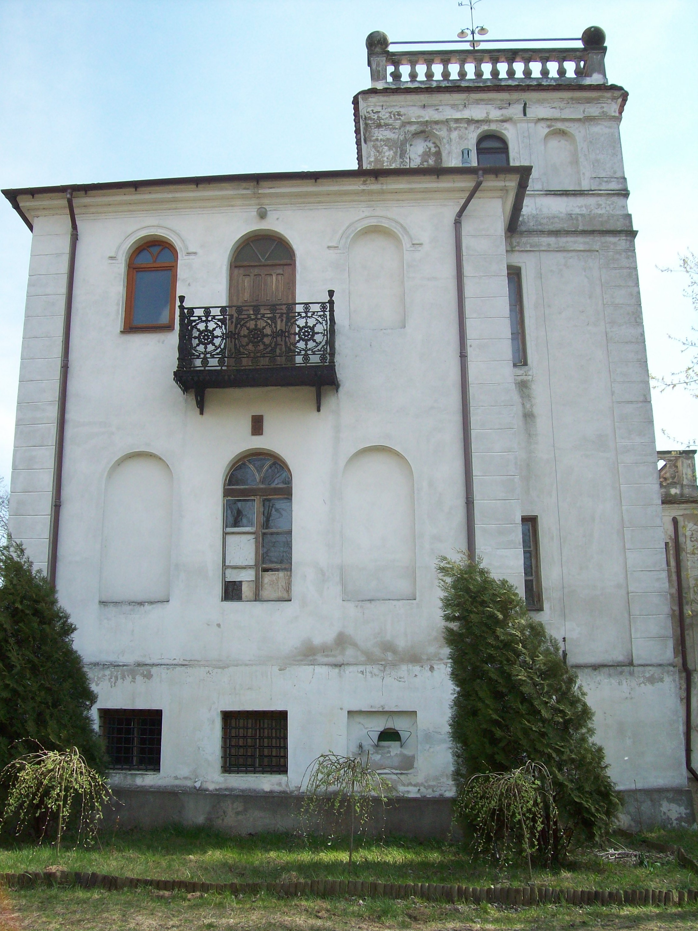 Manor in Swiesz PL April 2012